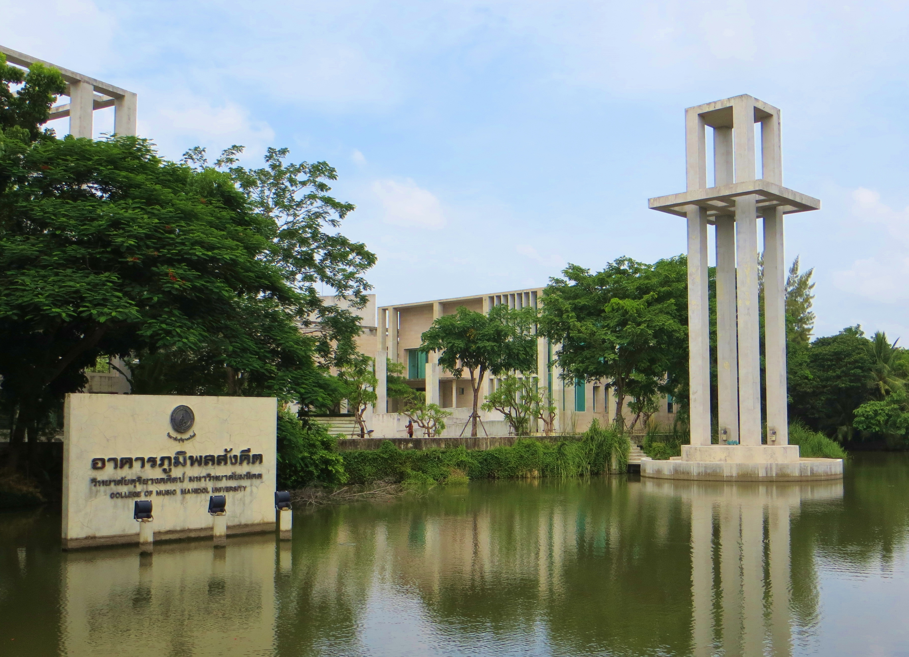 College of Music, Mahidol University, Salaya, Thailand, from the walkway over the pond. Photo by self, GFDL/CC-by-SA 3.0. June 2014.